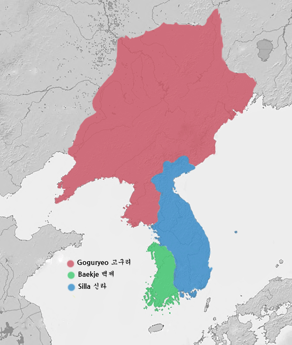 576 years of the Three Kingdoms period was the heyday of Silla.